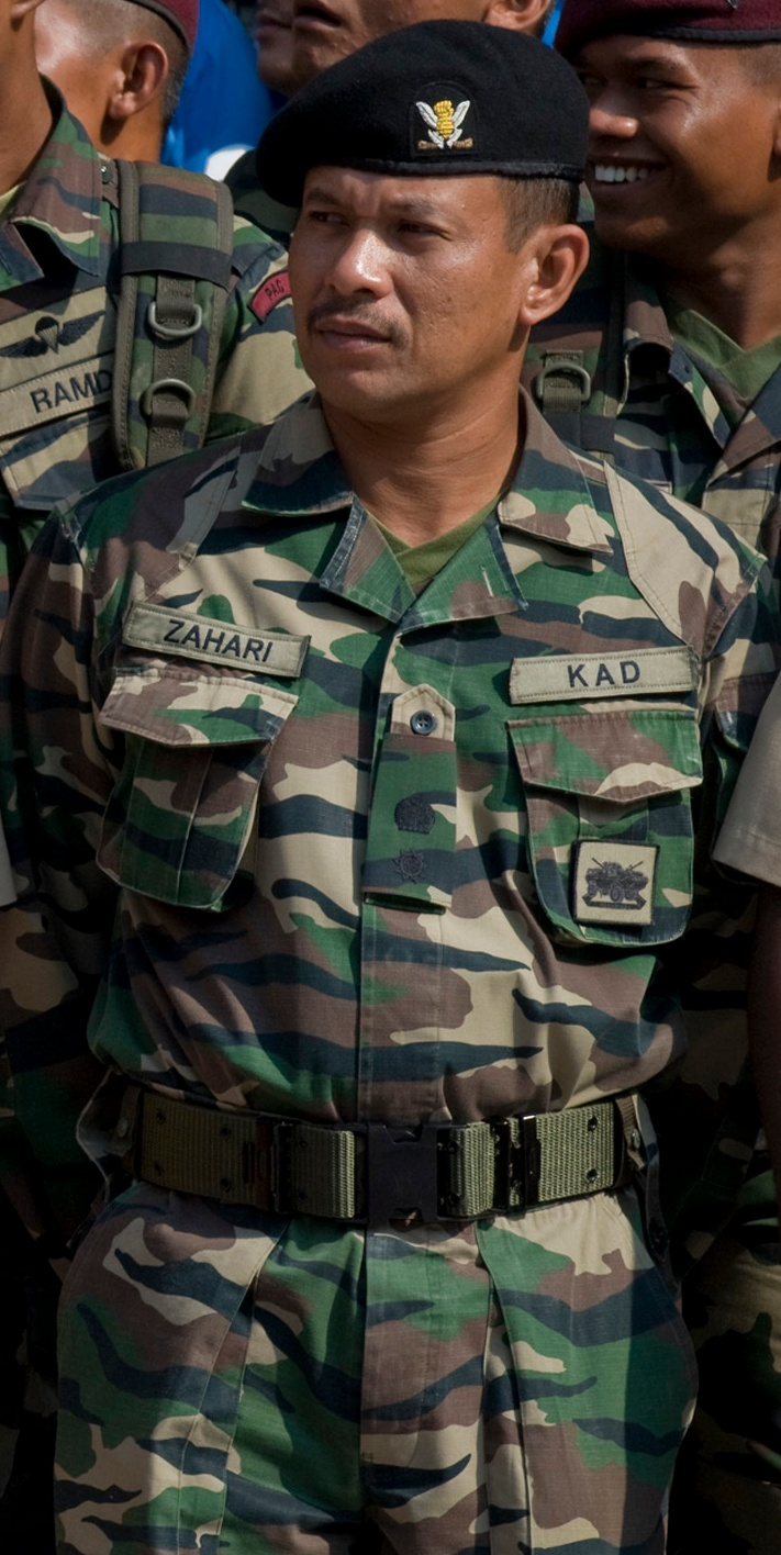 Cropped version of a public domain photo made by a sailor or employee of the US Navy to highlight the Malaysian Armed Forces field uniform.